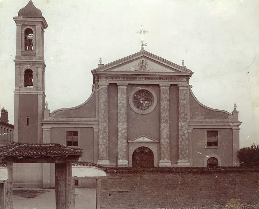 The old catholic church in Rakovski, before 1928